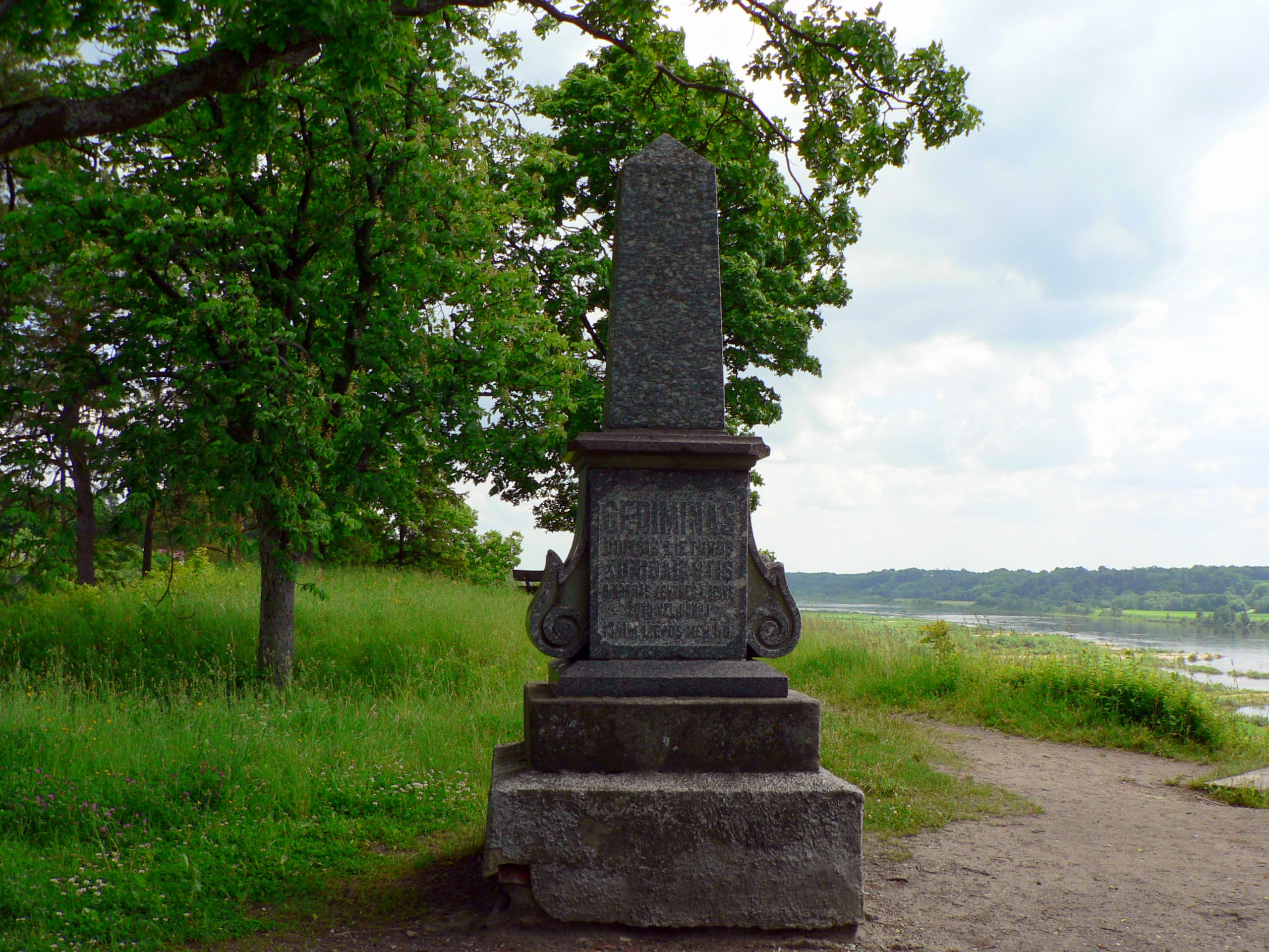 Gediminas tombstone in Veliuona, Lithuania. View from a hillfort. Author: Wojsyl, 2005.